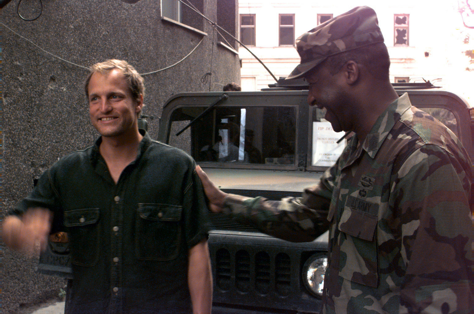 Sergeant Major of the Army, Gene McKinney, meets with actor Woody Harrelson. (Released to Public)